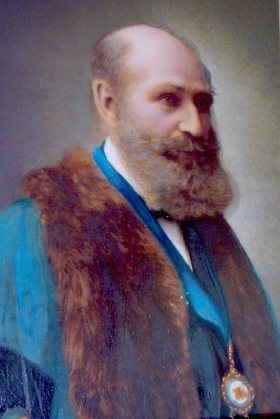 Taken from portrait of Handel Cossham hanging in the Board Room of Cossham Hospital.